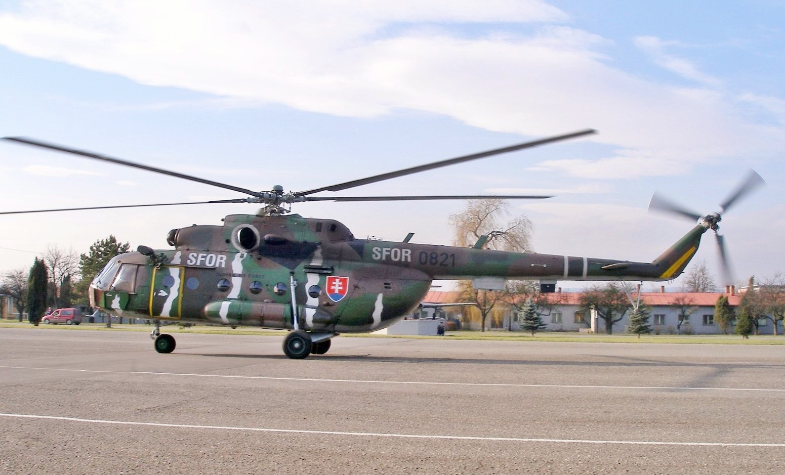 cropped and color refinements from this image